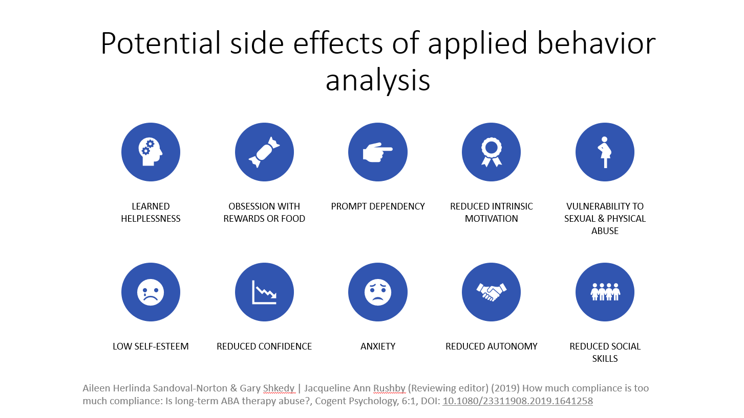 Long-term effects of ABA have not been studied in detail. According to Sandoval-Norton and Shkedy in 2019, children who receive ABA therapy may be at risk for issues like learned helplessness, obsession with rewards or food, prompt dependency, reduced intrinsic motivation, low self-esteem, reduced confidence, anxiety, reduced autonomy, and reduced social skills.